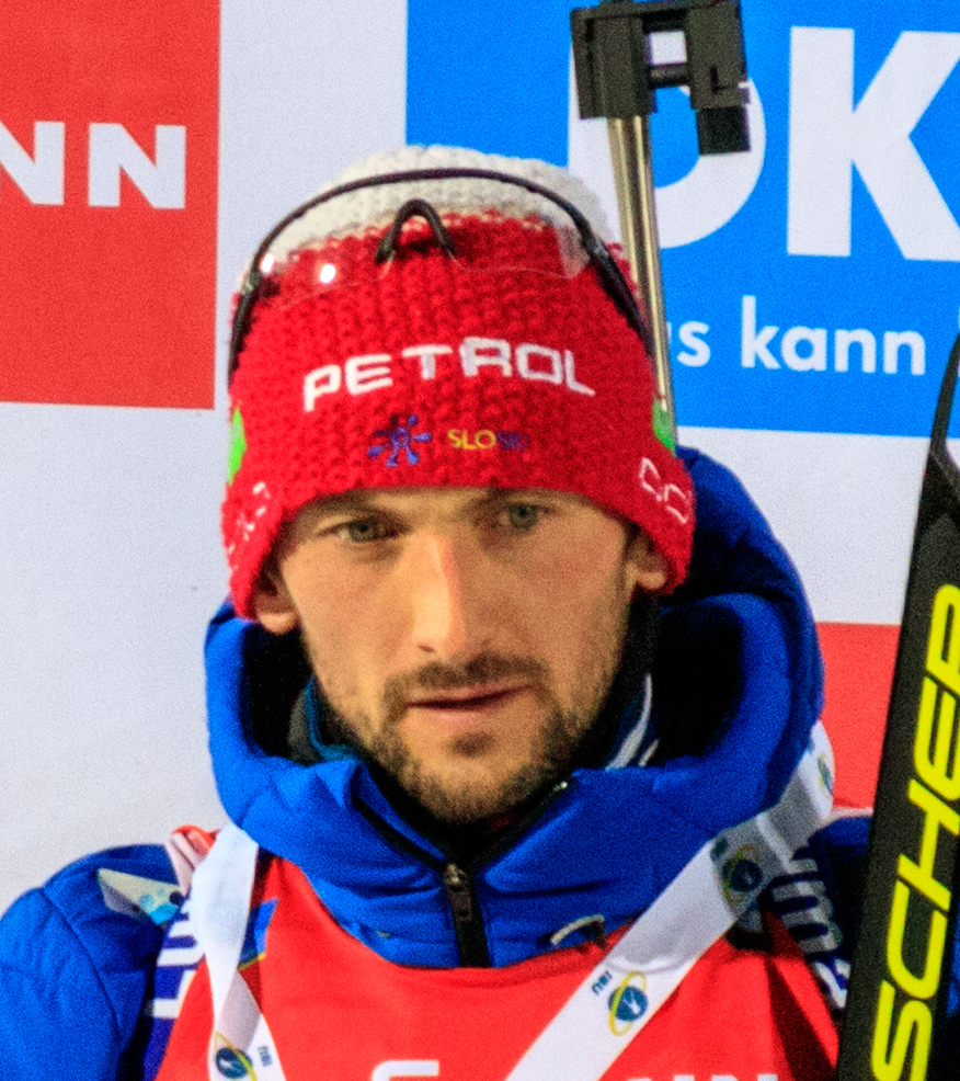 Jakov Fak in Östersund 2017